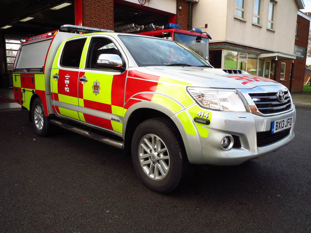 WMFS Brigade Response Vehicle